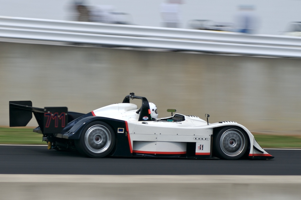 A Lola B2K/40 used in Historic Sportscar Racing